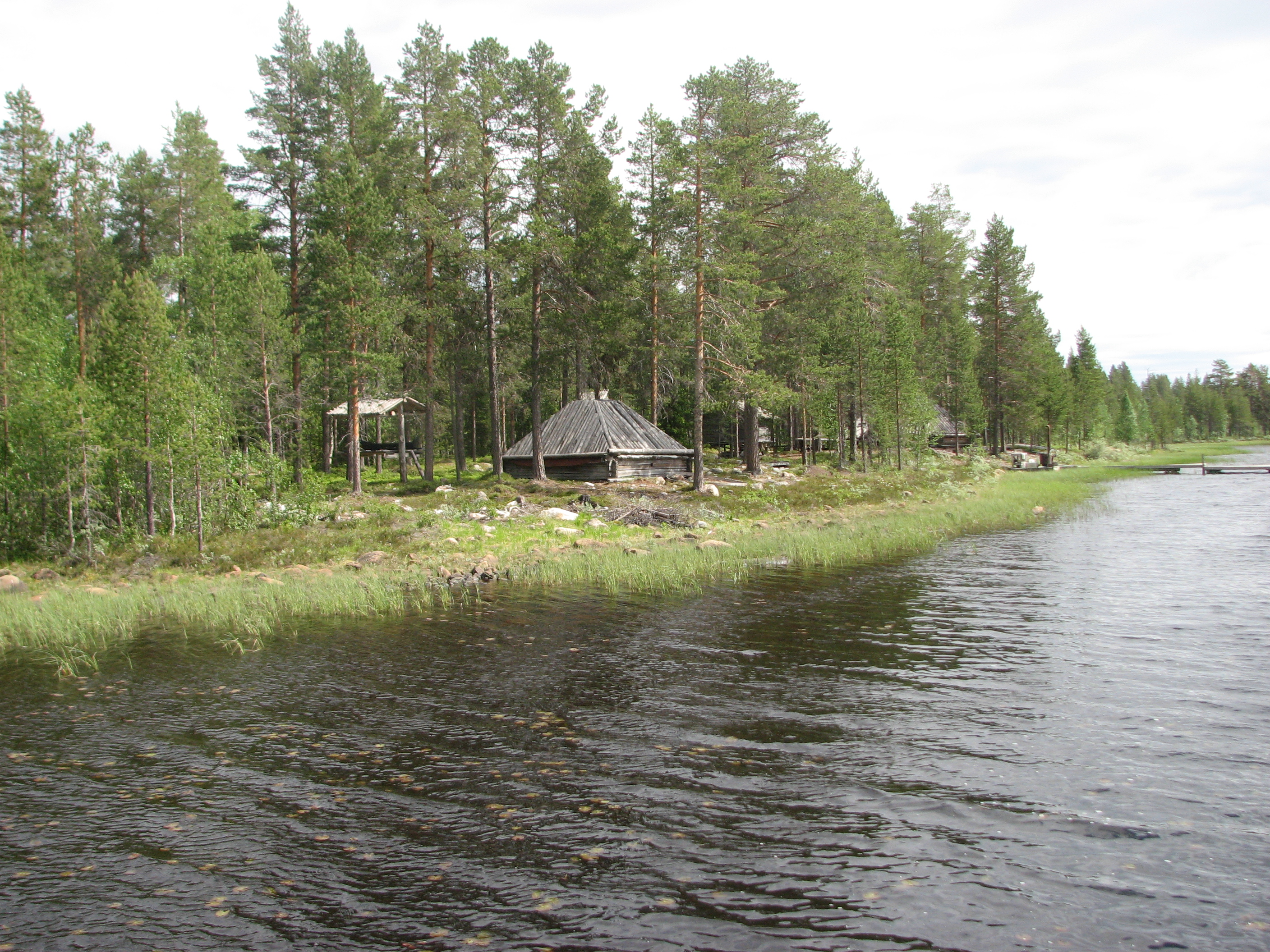 Båtsuoj sami center, Arvidsjaur Municipality, Sweden. Year 2011